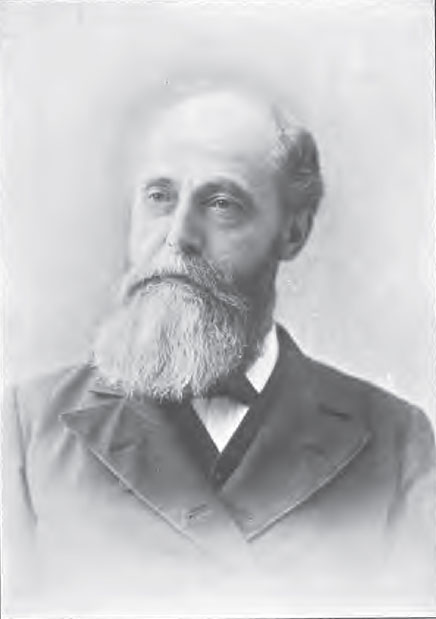 Rev. Nathan Sites